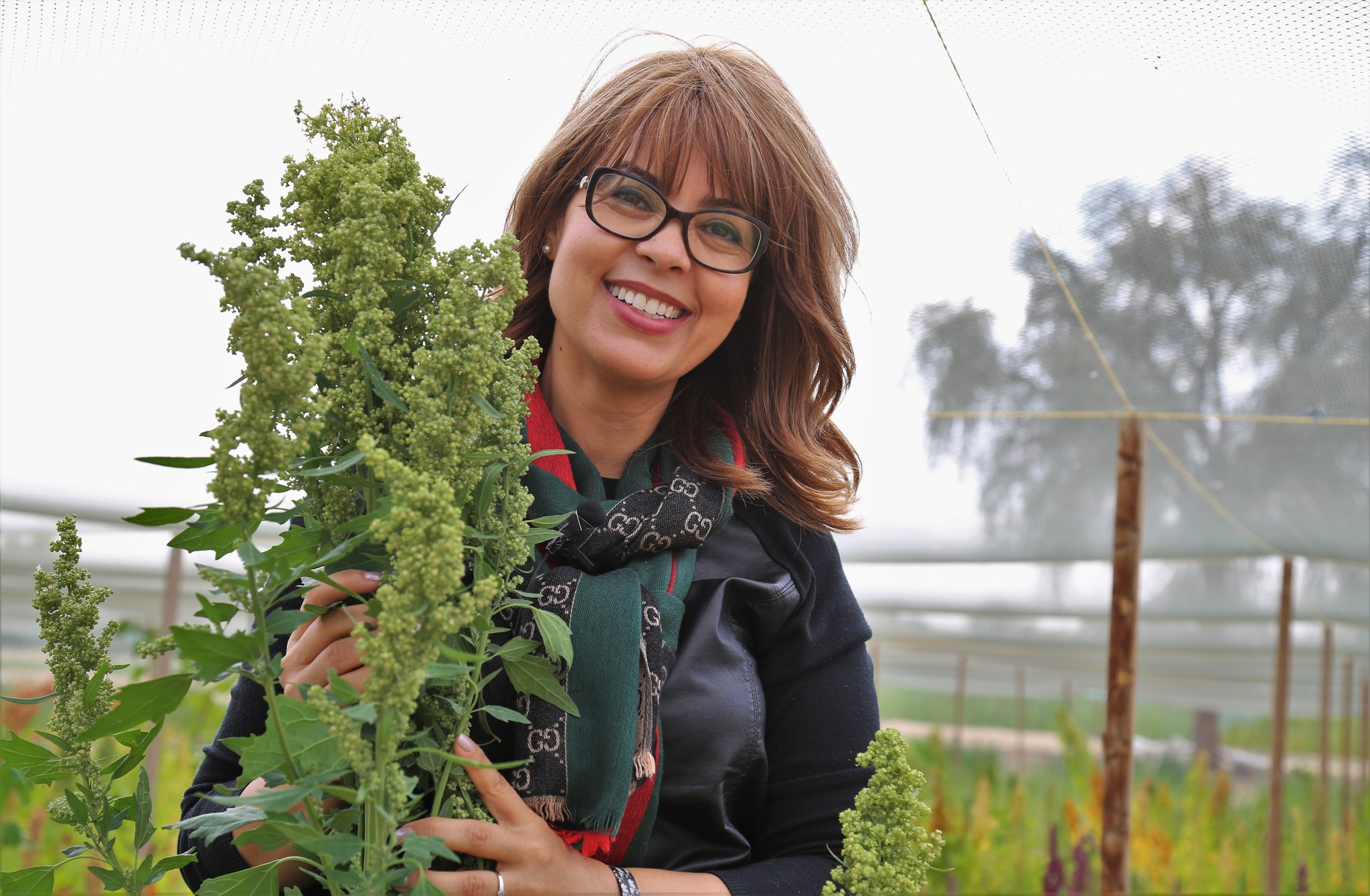 Ismahane Elouafi, Director General of the International Center for Biosaline Agriculture (ICBA)